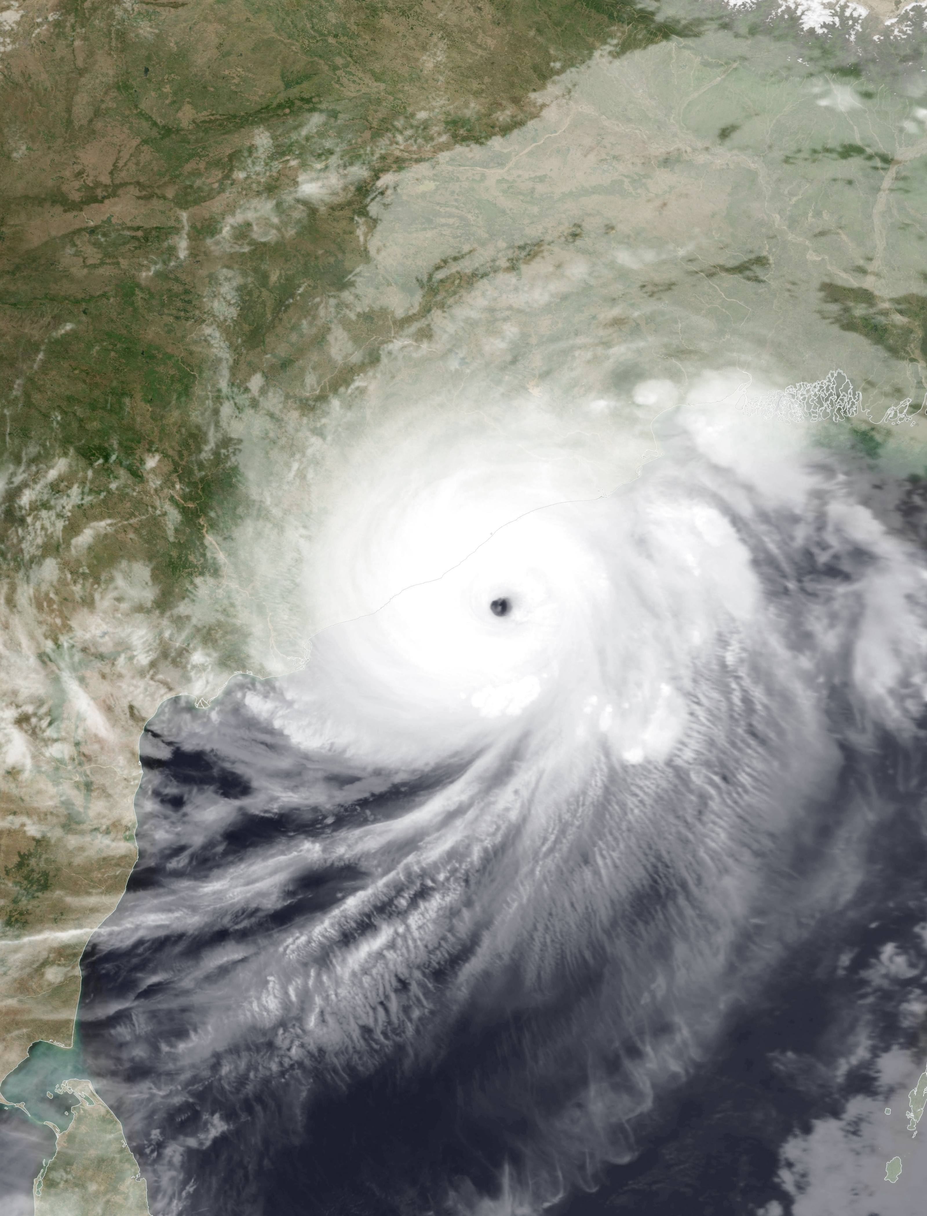 Extremely Severe Cyclonic Storm Fani approaching India at peak intensity on May 2, 2019. At that time, Fani had 3-min winds of up to 130 mph (215 km/h) and had 1-min winds of up to 155 mph (250 km/h).